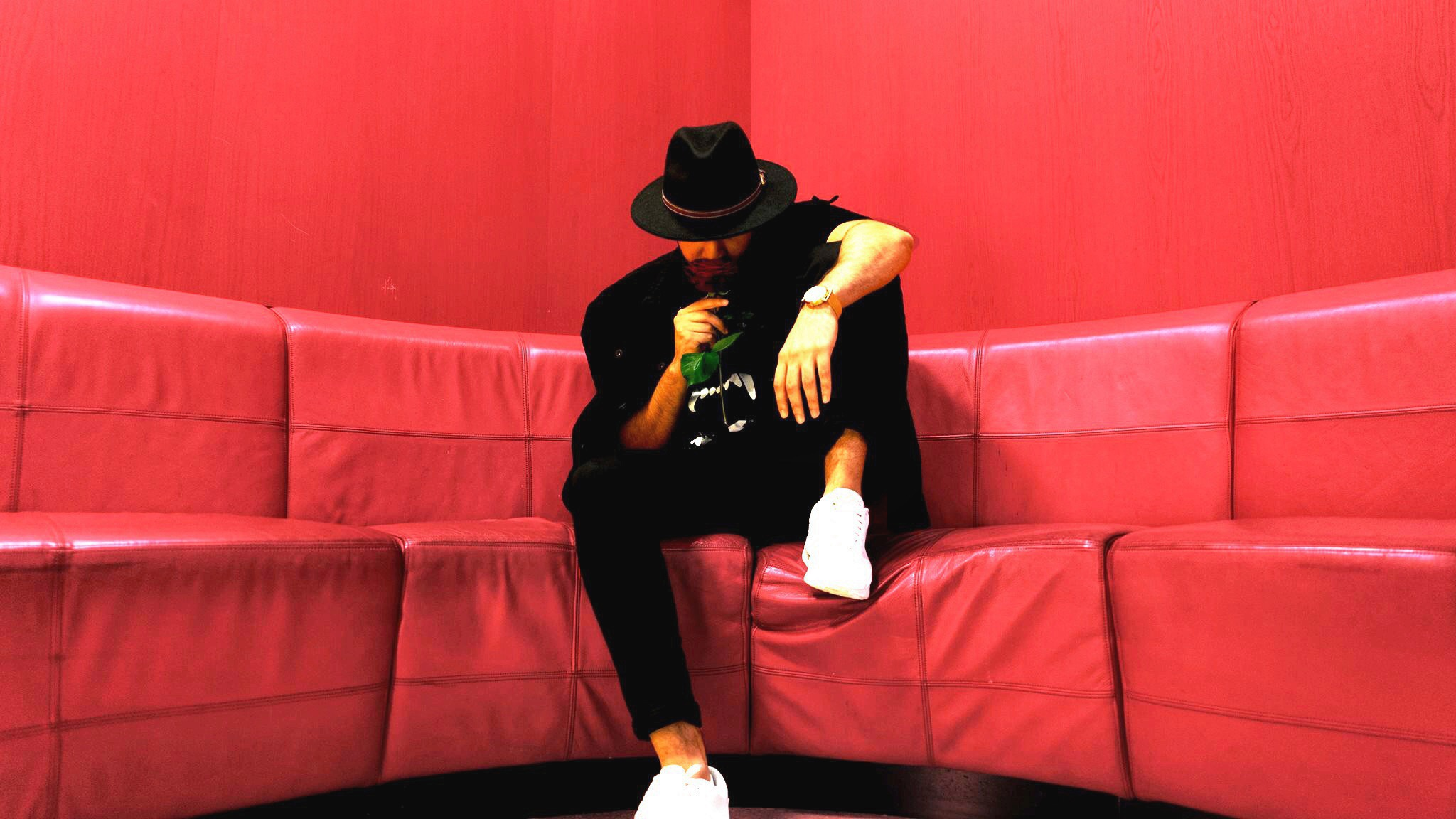 LE SINNER in Malmö, Sweden